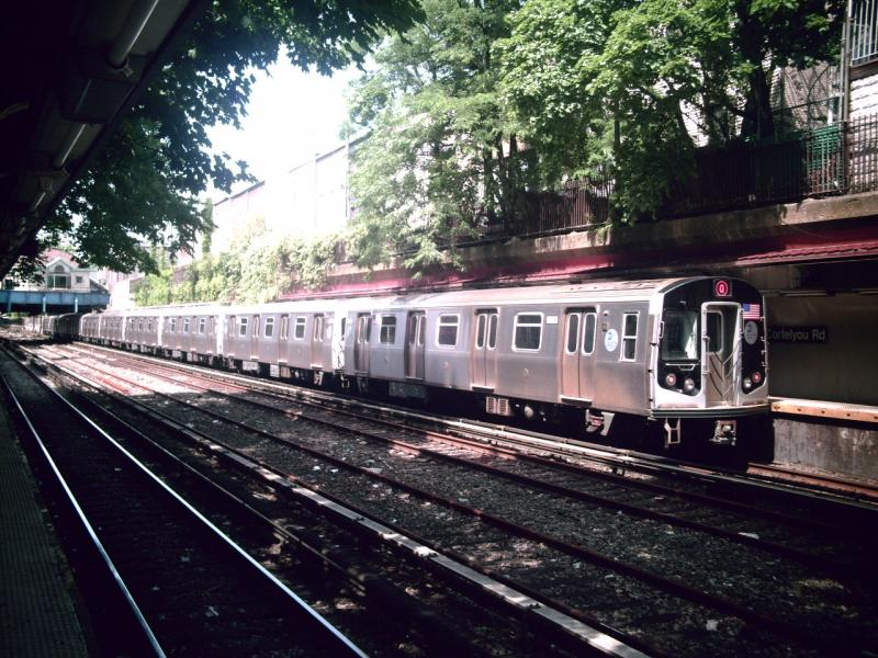 Manhattan-bound Q train of R160Bs at Cortelyou Road